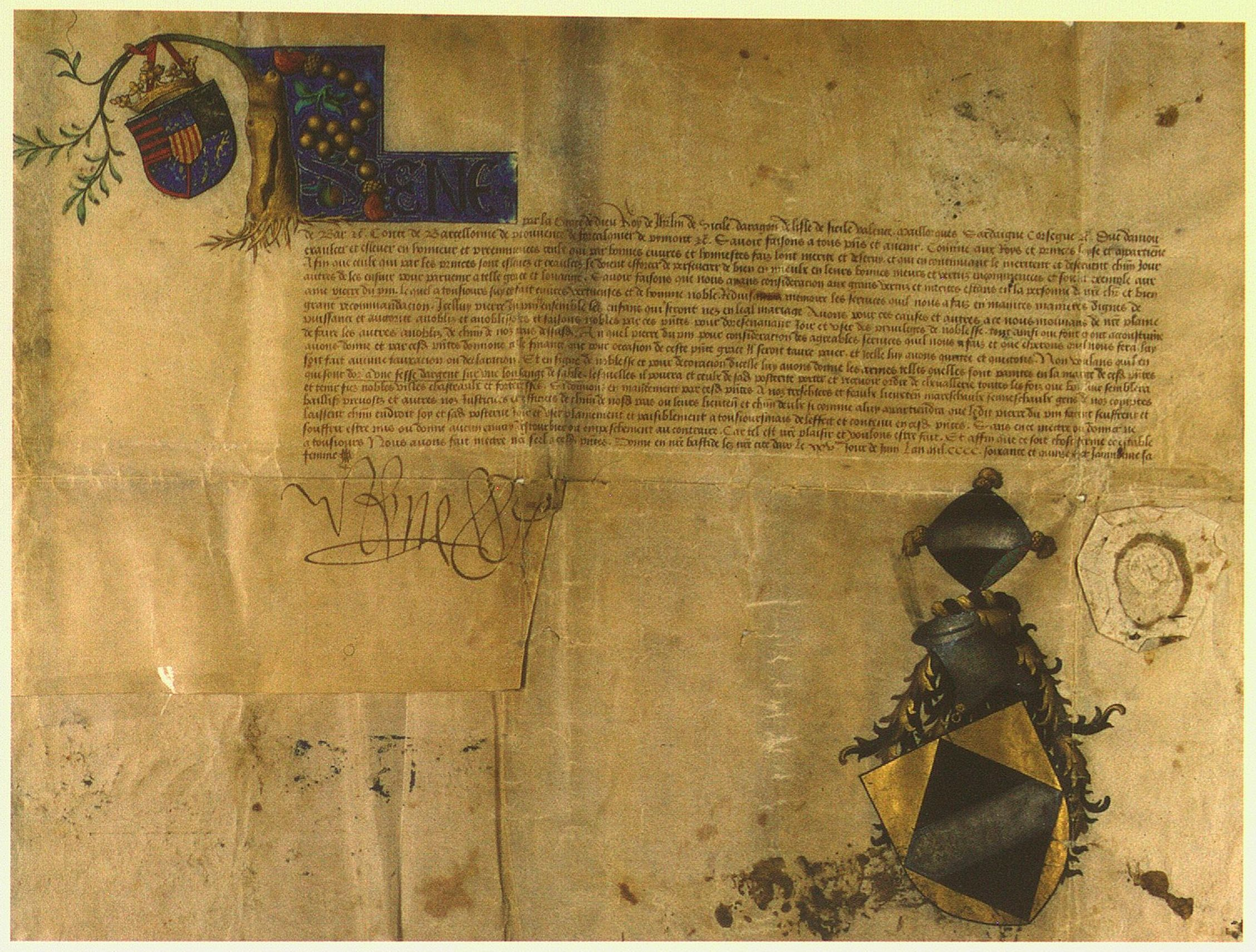 A charter of René of Anjou. Carpentras, Bibliothèque Inguimbertine, Ms. 1853, fol. 200r.